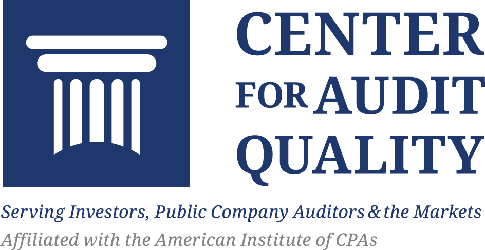 CAQ Logo